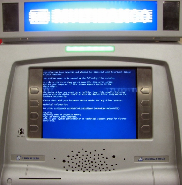 A Portuguese ATM running (or not) windows, in the Lisbon Airport.